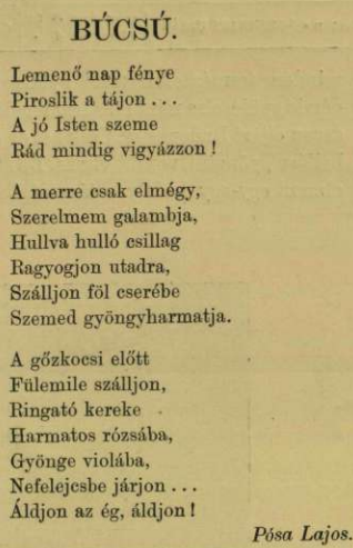 Poem of Pósa Lajos